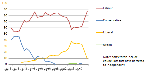 Seat total for parties between 1973-2012, with defections to independents counted in with their original party (eg. Independent Labour classed as Labour).